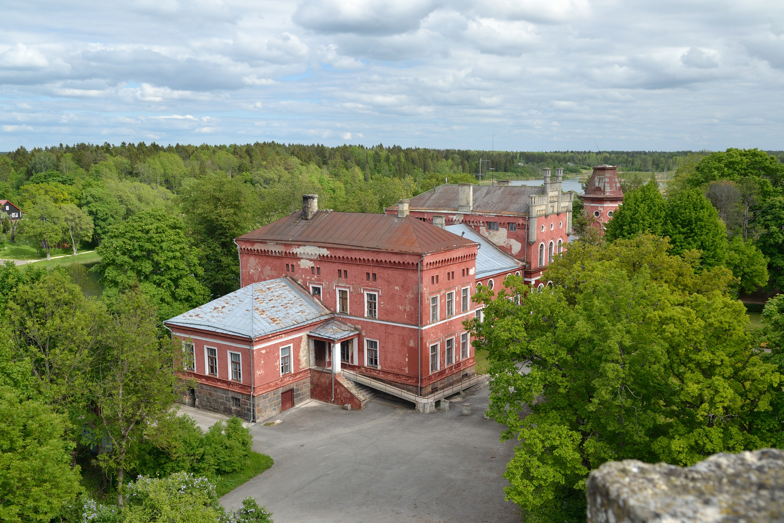 Porkuni manor main building